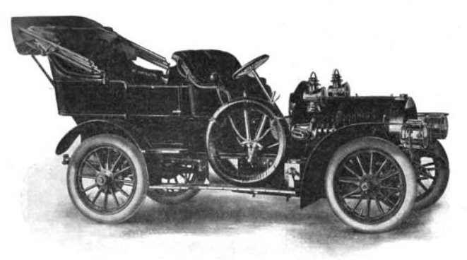 A photo of a 1906 Rainier Automobile from a magazine article; from Google Books scan: Title The Horseless Age, Volume 17, No 3, page 126, Publisher Horseless Age Co., 1906 Original from the New York Public Library Digitized Jun 1, 2006